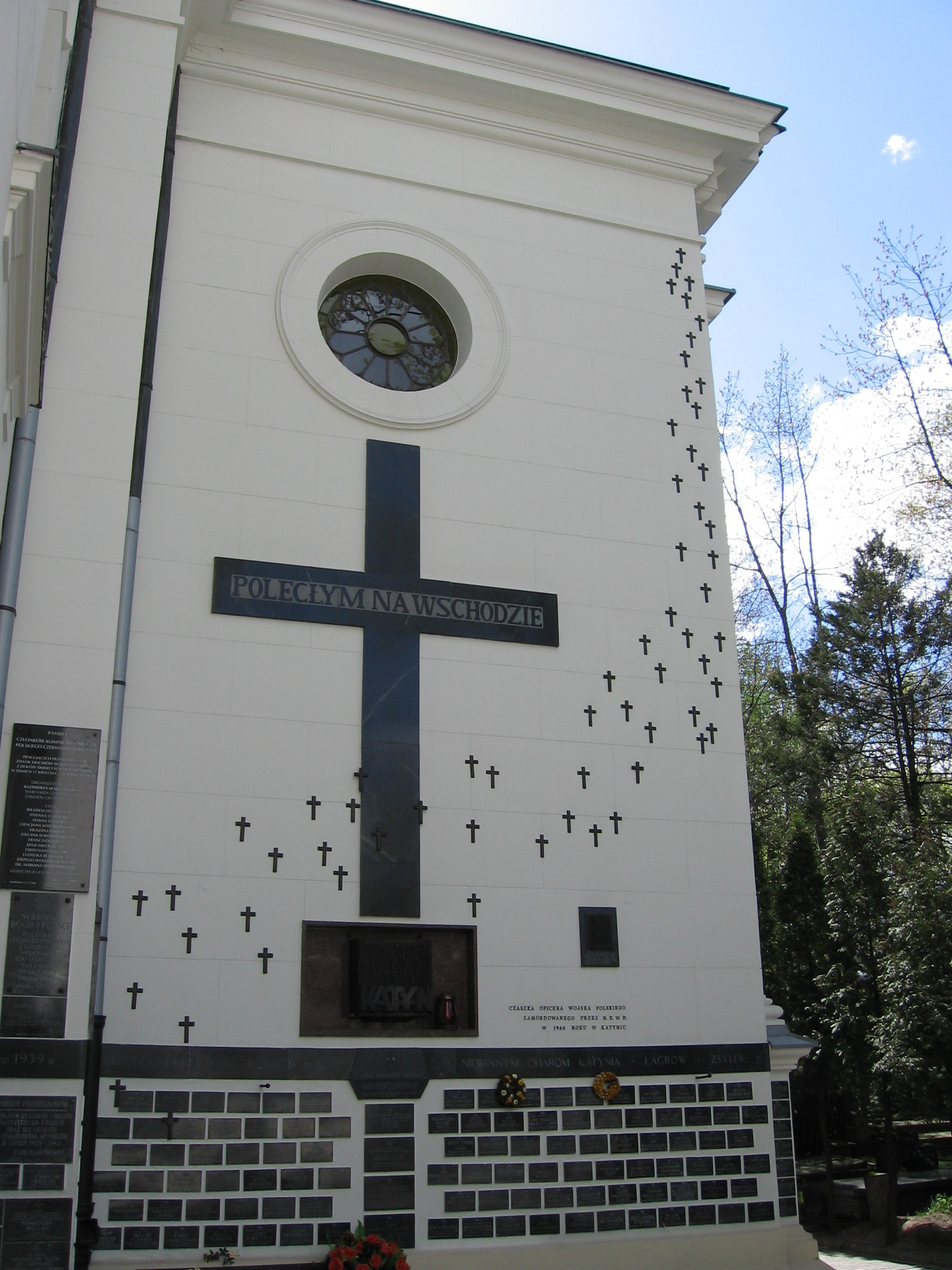 St. Karol Boromeusz Church - Katyn Memorial, Warsaw, Poland